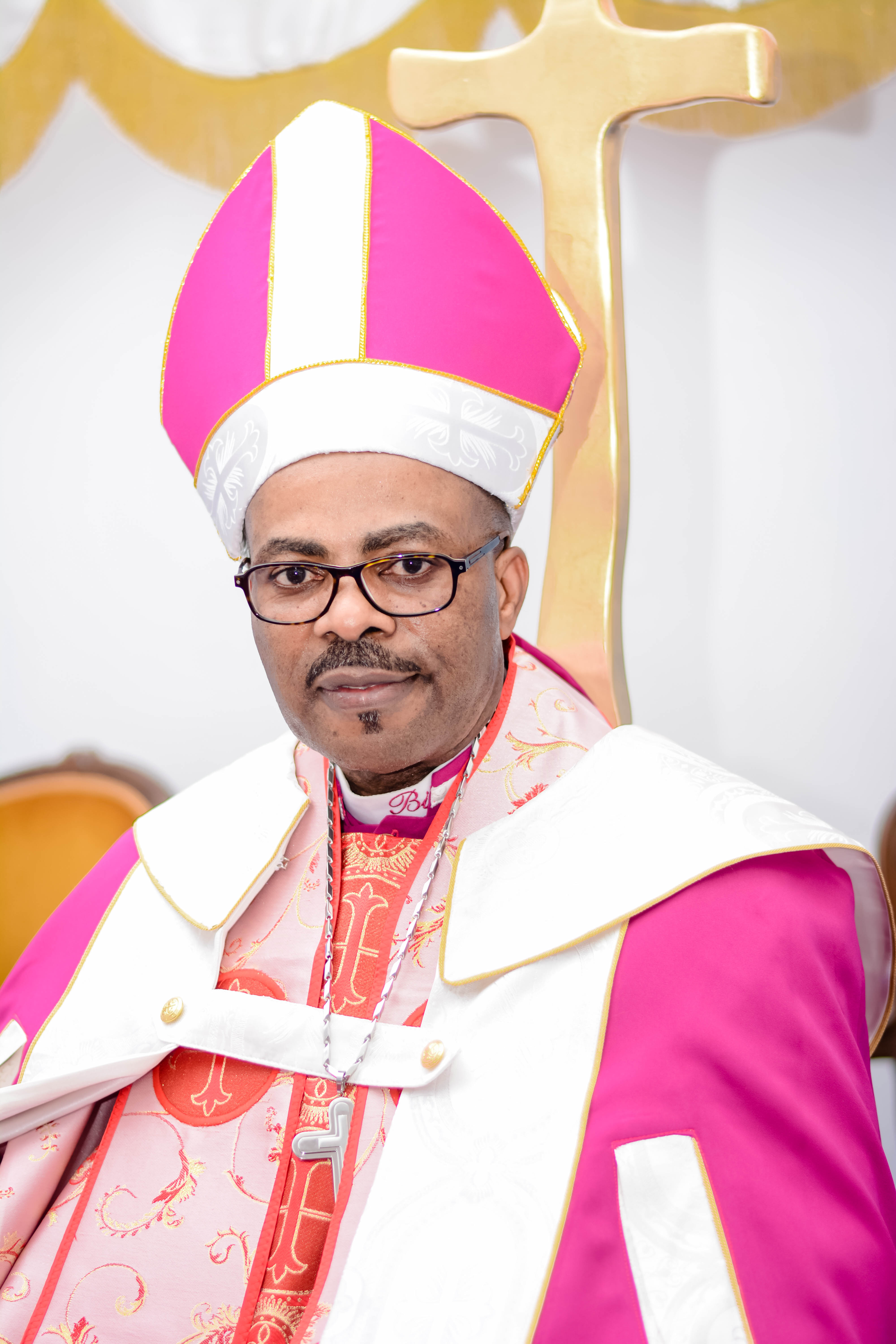 Bishop Joseph Iyobo in the Bishop Consecration ceremony